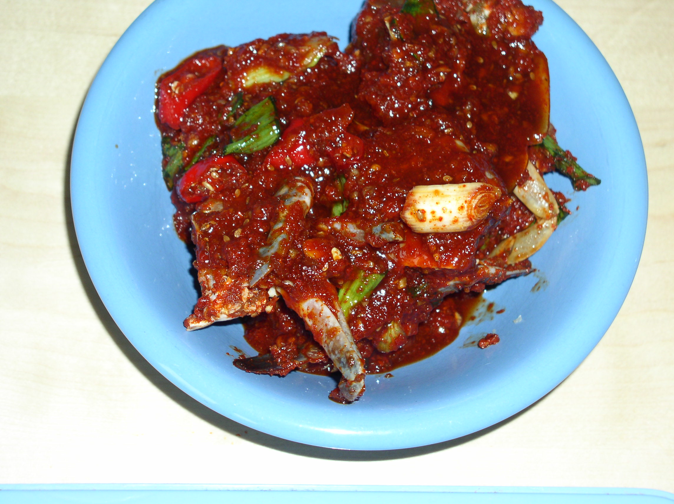 Gejang, kind of Kimchi made with crab and chilli sauce.